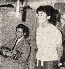 ناهید دایی جواد